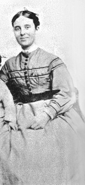 Sarah Briggs, wife of Benjamin Briggs and passenger of Mary Celeste